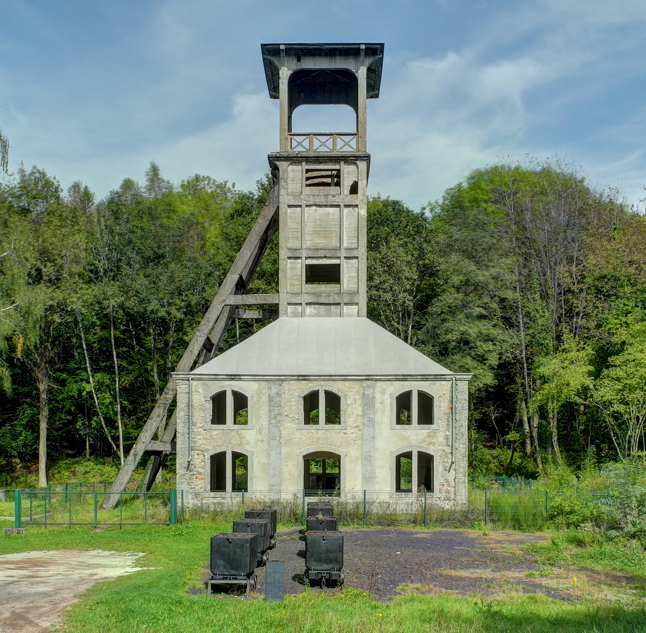 It is indexed in the Base Mérimée, a database of architectural heritage maintained by the French Ministry of Culture, under the references PA70000053 and IA70000154 . Puits Sainte Marie : chevalement (HDR). Lieu inscrit Monument historique sous le n°PA70000053.